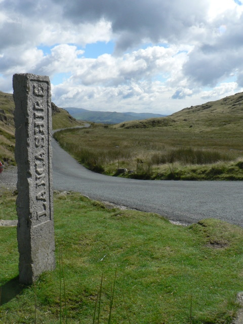 Wrynose Pass: Three Shires Stone This stone marks what was, until 31 March 1974, the meeting point of the counties of Lancashire, Cumberland and Westmorland. It is now wholly within Cumbria.